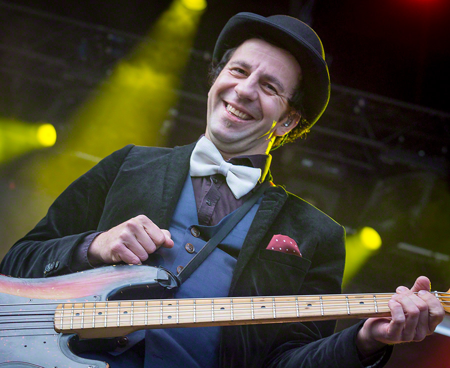 Violet Road at the minor stage during Stavernfestivalen in Stavern on 07. July 2016. Lineup:Kjetil Holmstad-Solberg (vocal)Herman Rundberg (Unknown instrument)Halvard Rundberg (Unknown instrument)Hogne Rundberg (bass)Håkon Rundberg (Unknown instrument)